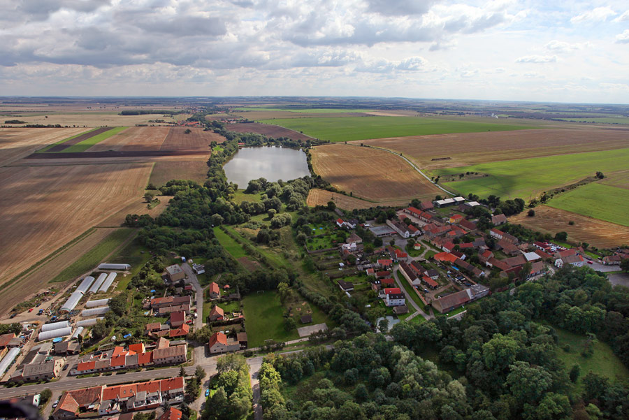 village Šlapanice (okr.Kladno)